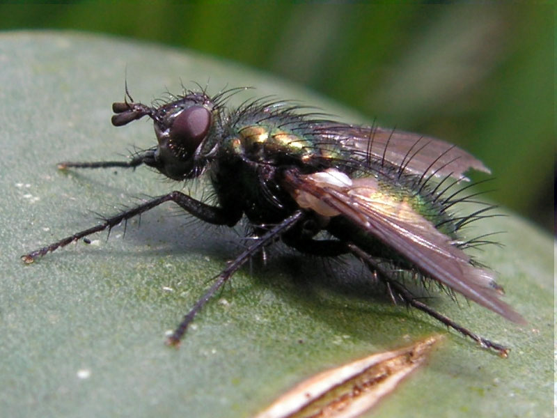 Gymnocheta viridis, a tachinid fly. Identity was confirmed after a query on the fly forum ( Judging from the poor state of its wings, it's probably late in the season for this fly. Photo taken in The Hague, The Netherlands by Jens Buurgaard Nielsen